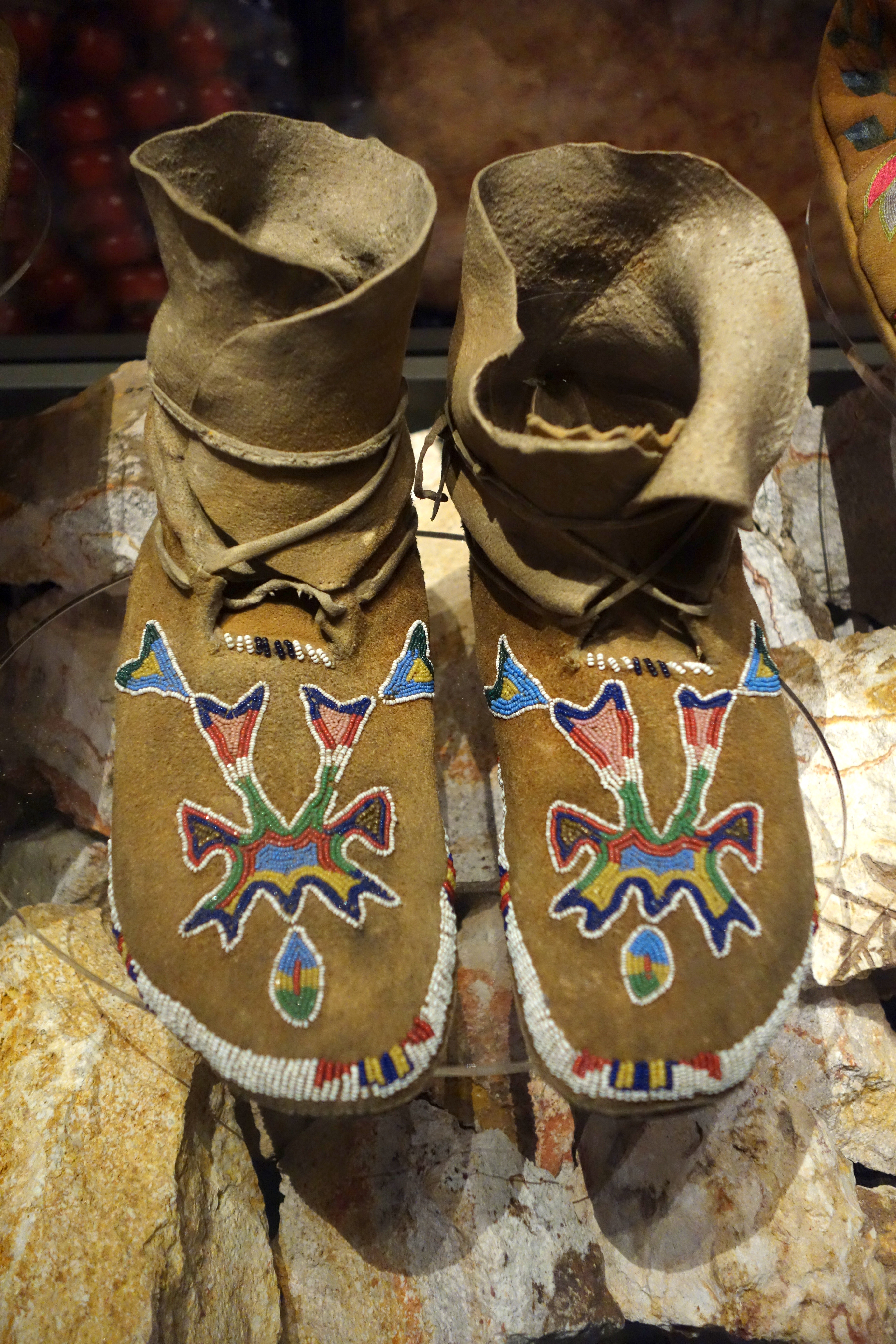 Exhibit in the Bata Shoe Museum, Toronto, Ontario, Canada. This item is old enough so that its design is in the public domain. The museum permitted photography without restriction.